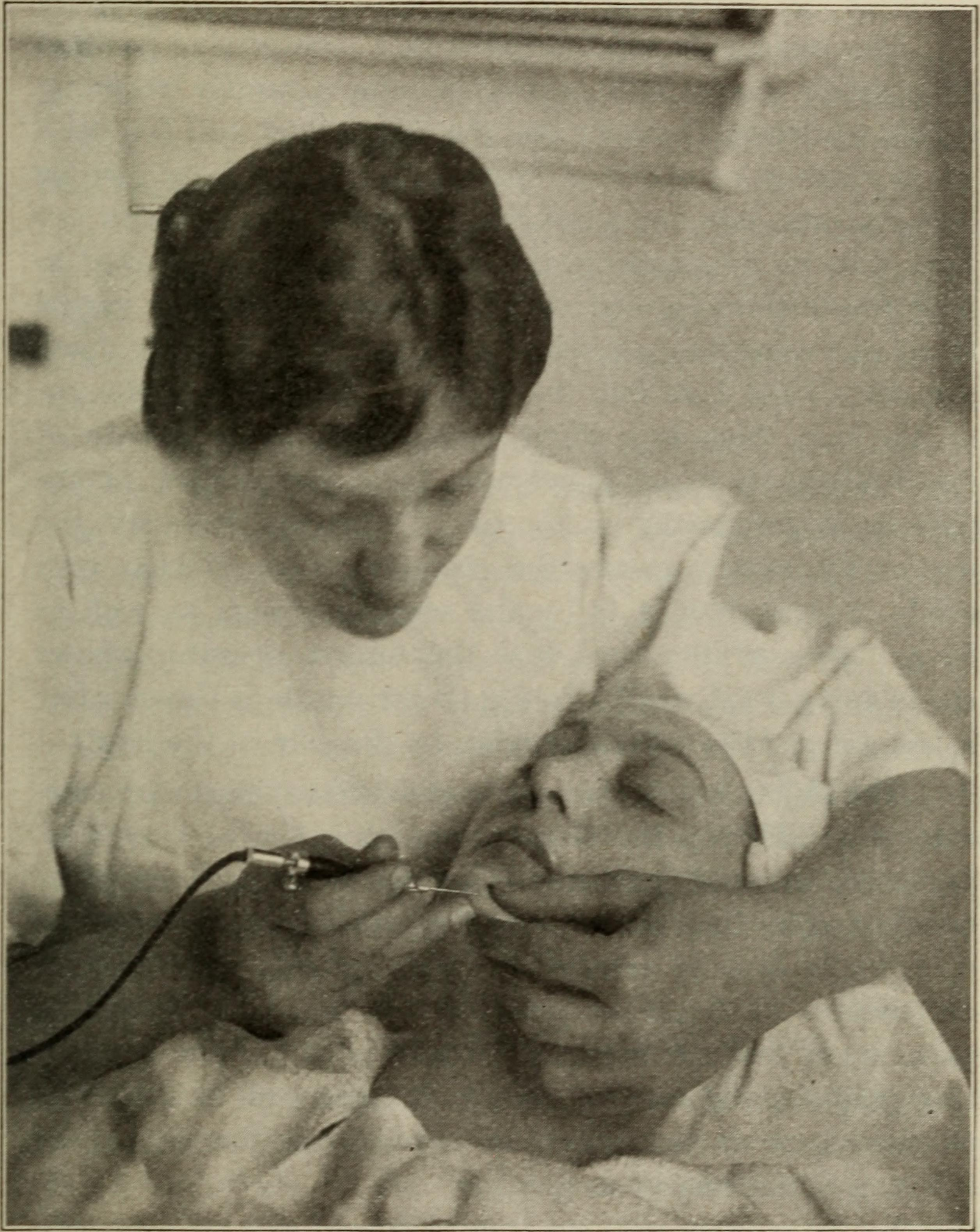 Title: The skin; its care and treatment Year: 1914 (1910s) Authors: (Maurer, Ruth D. Johnson, Mrs.), 1870- (from old catalog) Subjects: Skin Publisher: Chicago, McIntosh battery & optical company Text Appearing Before Image: ' Text Appearing After Image: Removal of Superfluous Hair. f.. 0 rator is Wearing with liinocuiar Magnif. i 104 THE SKIN METHOD OF PROCEDURE The patient should be seated in a comfortable positionor possibly, better still, should assume a nearly recliningposition in such a manner that the direct light will fall upQnthe portion to be operated upon. The battery may then bebrought into play and after the current is turned on to sayfour cells as a beginning, the patient may be instructed tohold the well moistened electrode, and the bulbous needleattached to negative pole should then be passed gently downthe side of the hair into the follicle. As shown in the cuton the skin there is a slight construction at the mouth ofthe follicle, so many times this little impediment to thepassage of the needle will occur. Ordinarily, however, theuse of the needle causes the entrance to be effected veryeasily, and in fact it is by the sense of touch as well asby evidence of the eyes that the expert operator knowsshe is doing good work